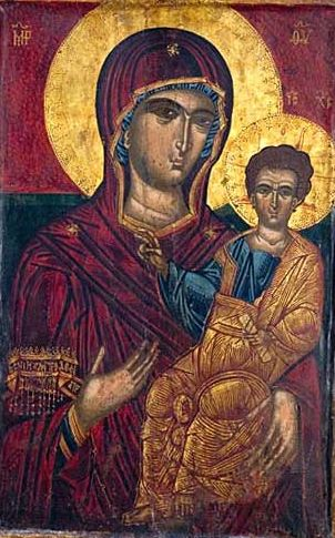 Icon of Hodegetria in St.Nicholas Church, Oreovec Monastery, Macedonia.